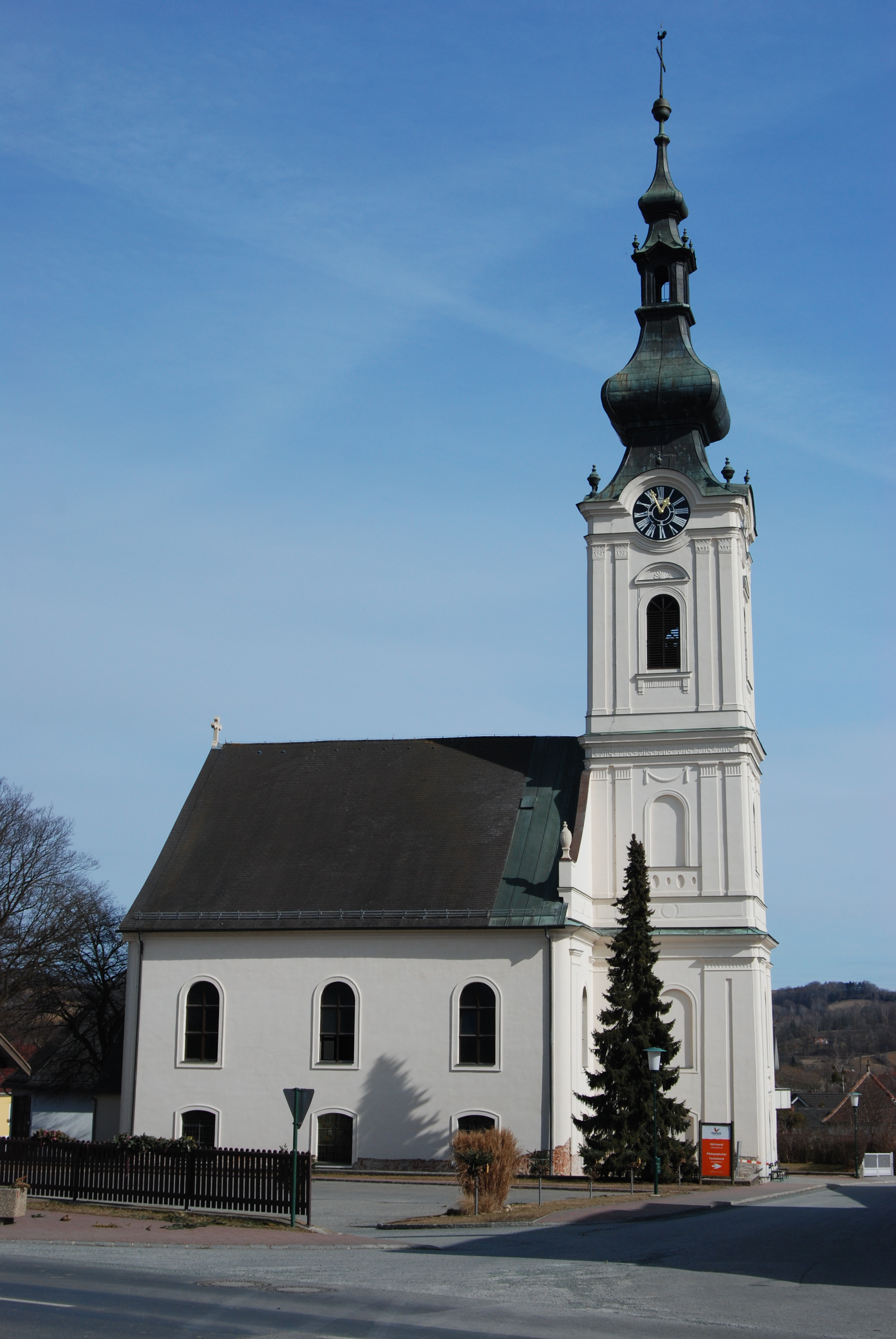 Evangelische Pfarrkirche Markt Allhau